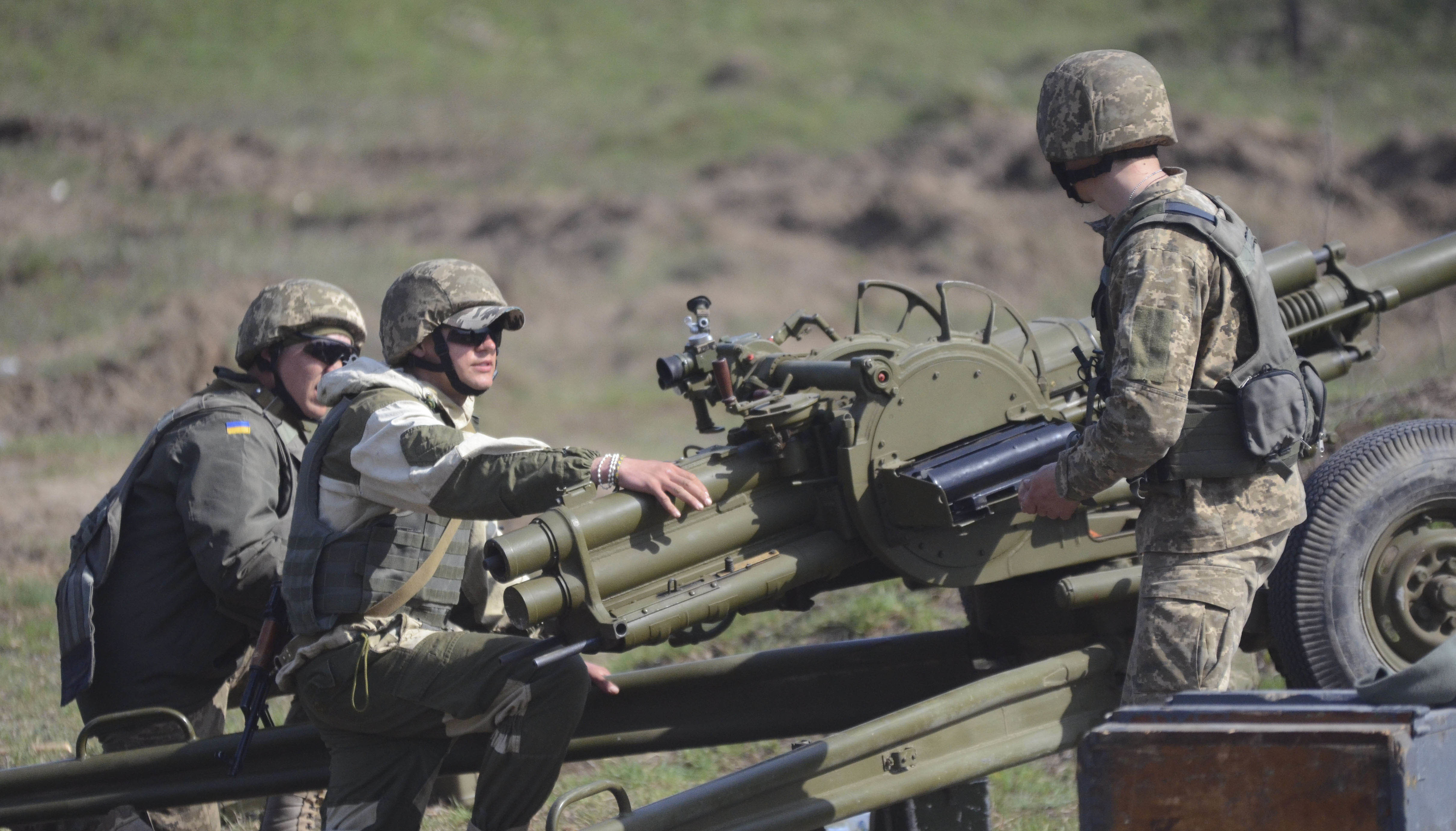 A soldier with the Ukrainian Land Forces (right), loads an 82mm mortar Apr. 5, 2016, during a mortar live-fire exercise at the International Peacekeeping and Security Center near Yavoriv, Ukraine as part as Joint Multinational Training Group-Ukraine. Each JMTG-U rotation will consist of nine weeks of training where Ukrainian soldiers will learn defensive combat skills needed to increase Ukraine's capacity for self-defense. (U.S. Army photo by Staff Sgt. Adriana M. Diaz-Brown, 10th Press Camp Headquarters).